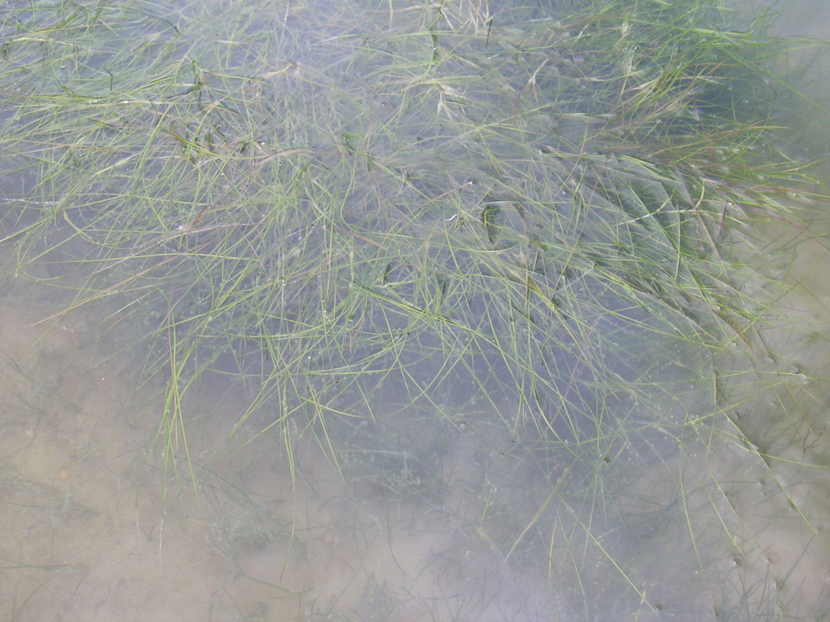 Ruppia maritima (in anchialine pond). Location: Maui, LaPerouse